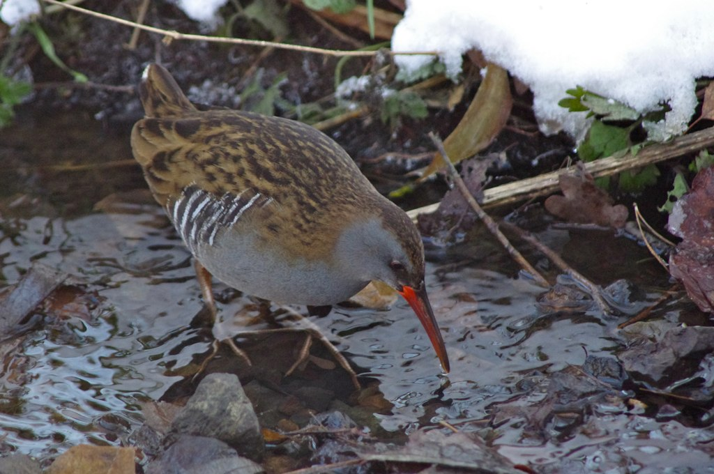 A Water Rail at Daventry Country Park, Daventry, Northamptonshire, England.